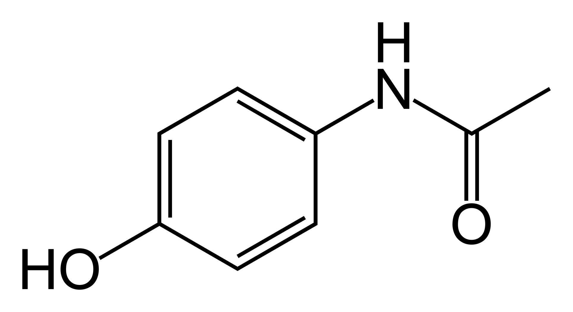 Skeletal formula of paracetamol (N-(4-hydroxyphenyl)ethanamide, C8H9NO2)